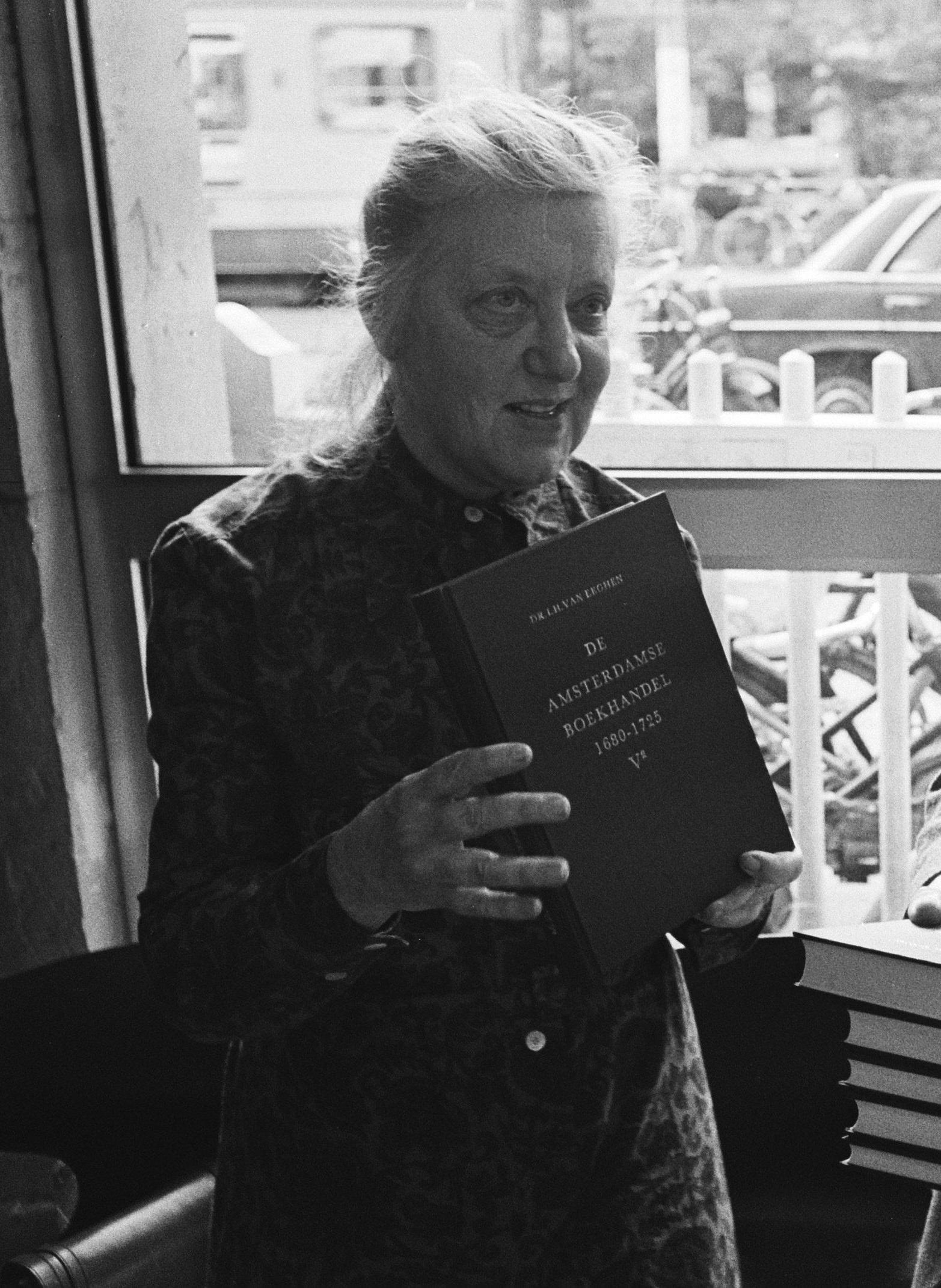 Isa van Eeghen holding the last volume of her 5-volume work on the publishers of Amsterdam 1680-1725 during a ceremonial presentation to the Amsterdam mayor Polak on 4 October 1978